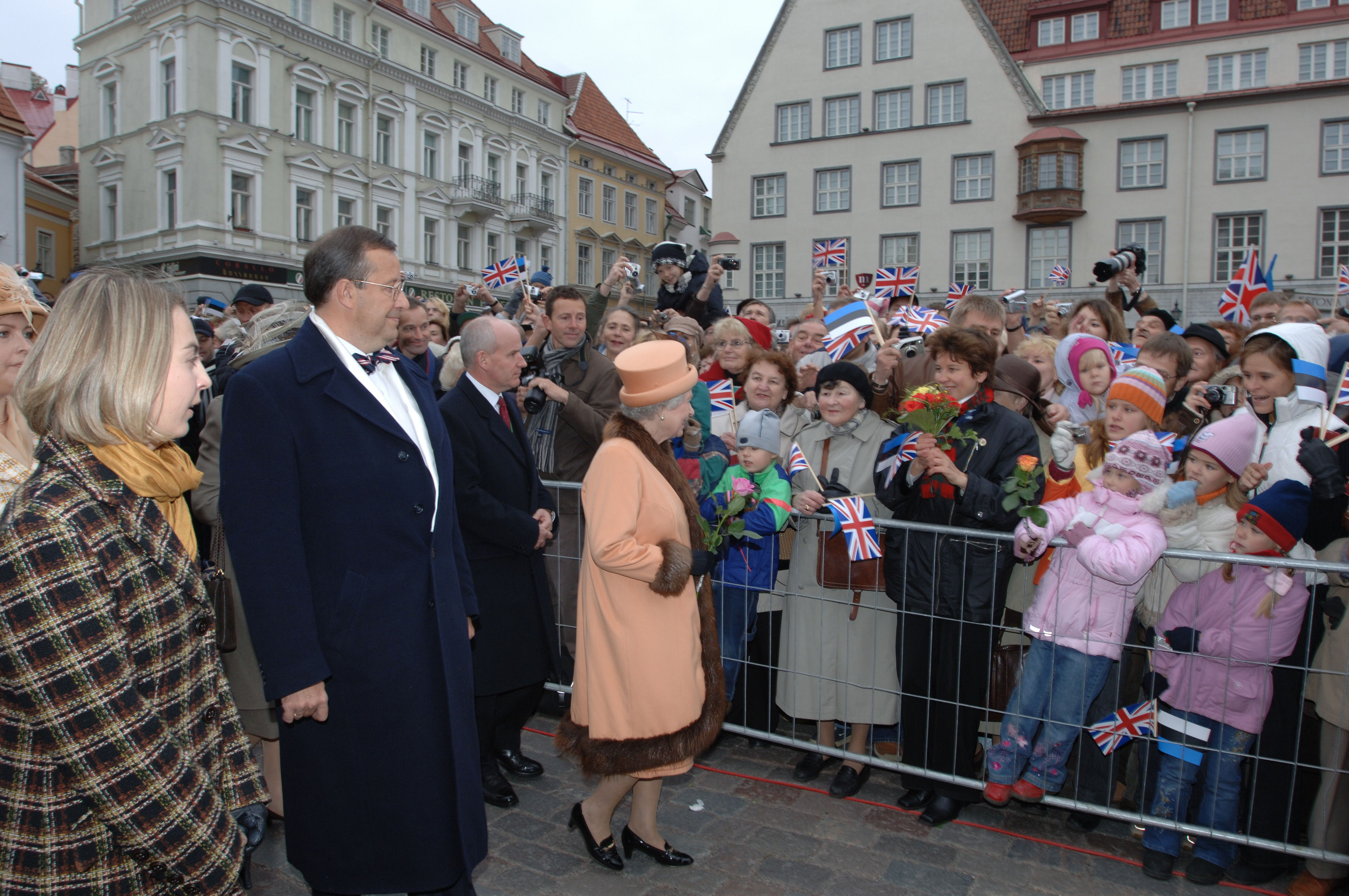 Queen Elizabeth, accompanied by Estonian President Toomas Hendrik Ilves, greeting onlookers in Tallinn